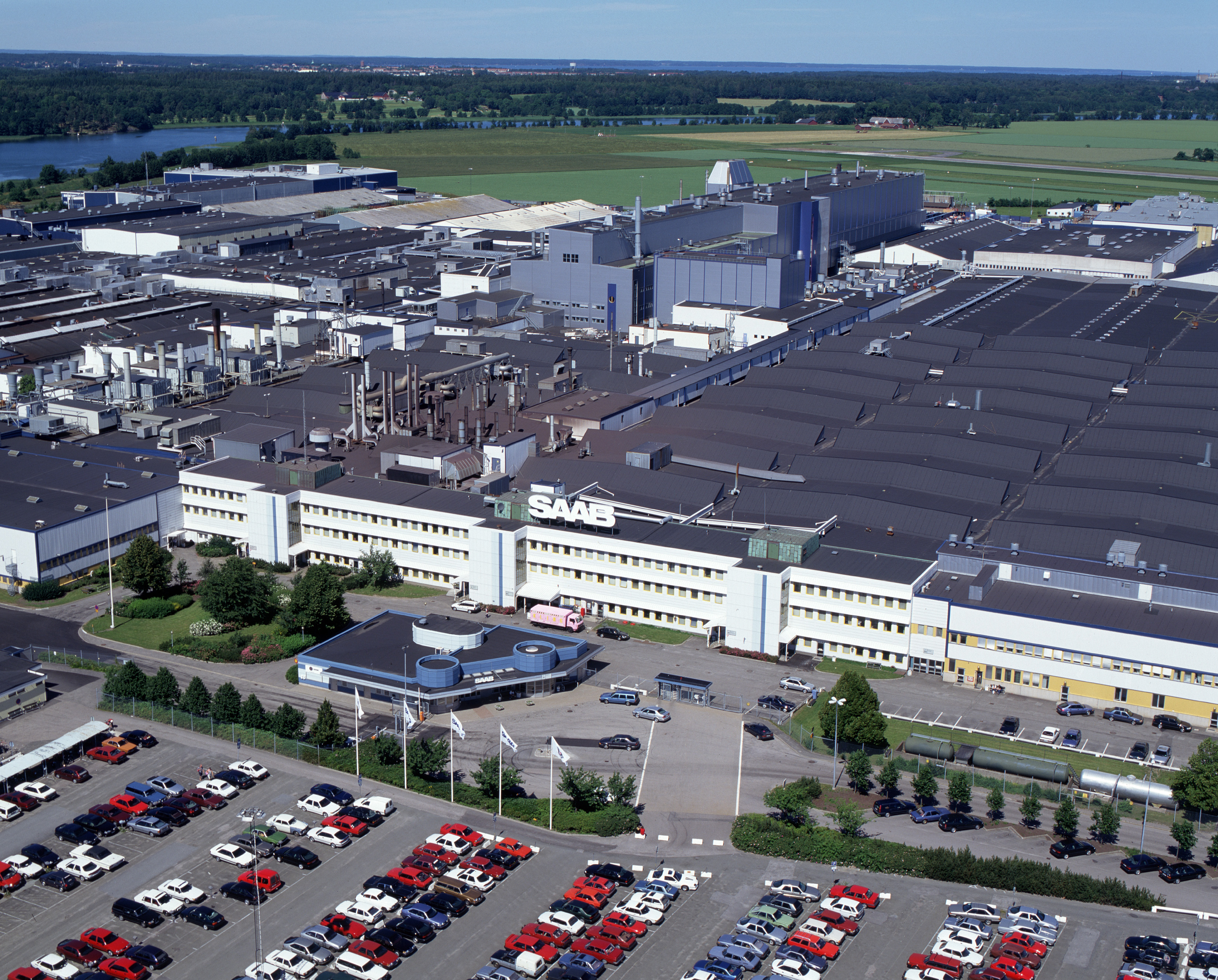 Saab Automobile AB main production facilities in Trollhattan, Sweden.